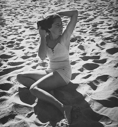 Photograph of Olive Cotton at the beach, taken by Max Dupain